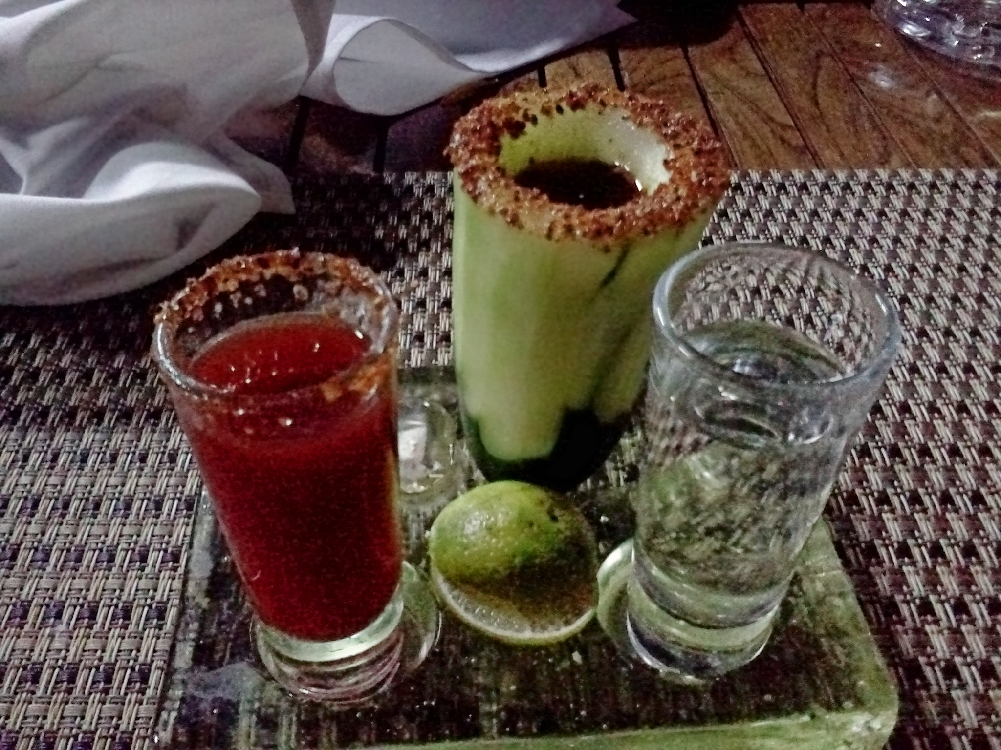 A bandera (spanish for flag) of Tequila, ordered at restaurante Los Girasolesa in Mexiko City.